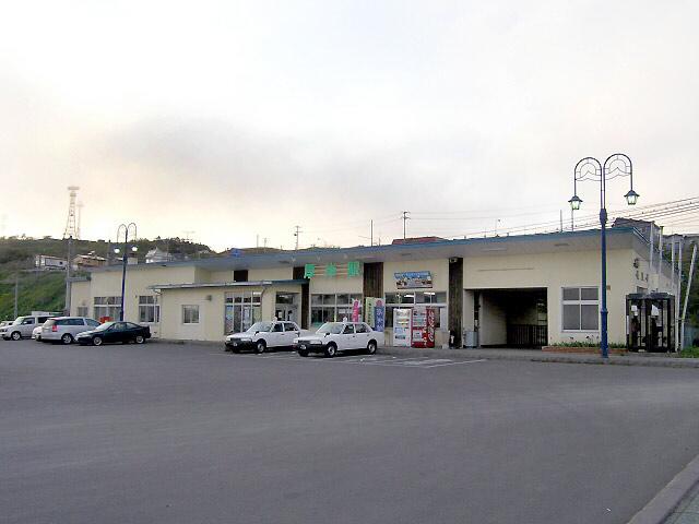 Akkeshi Station